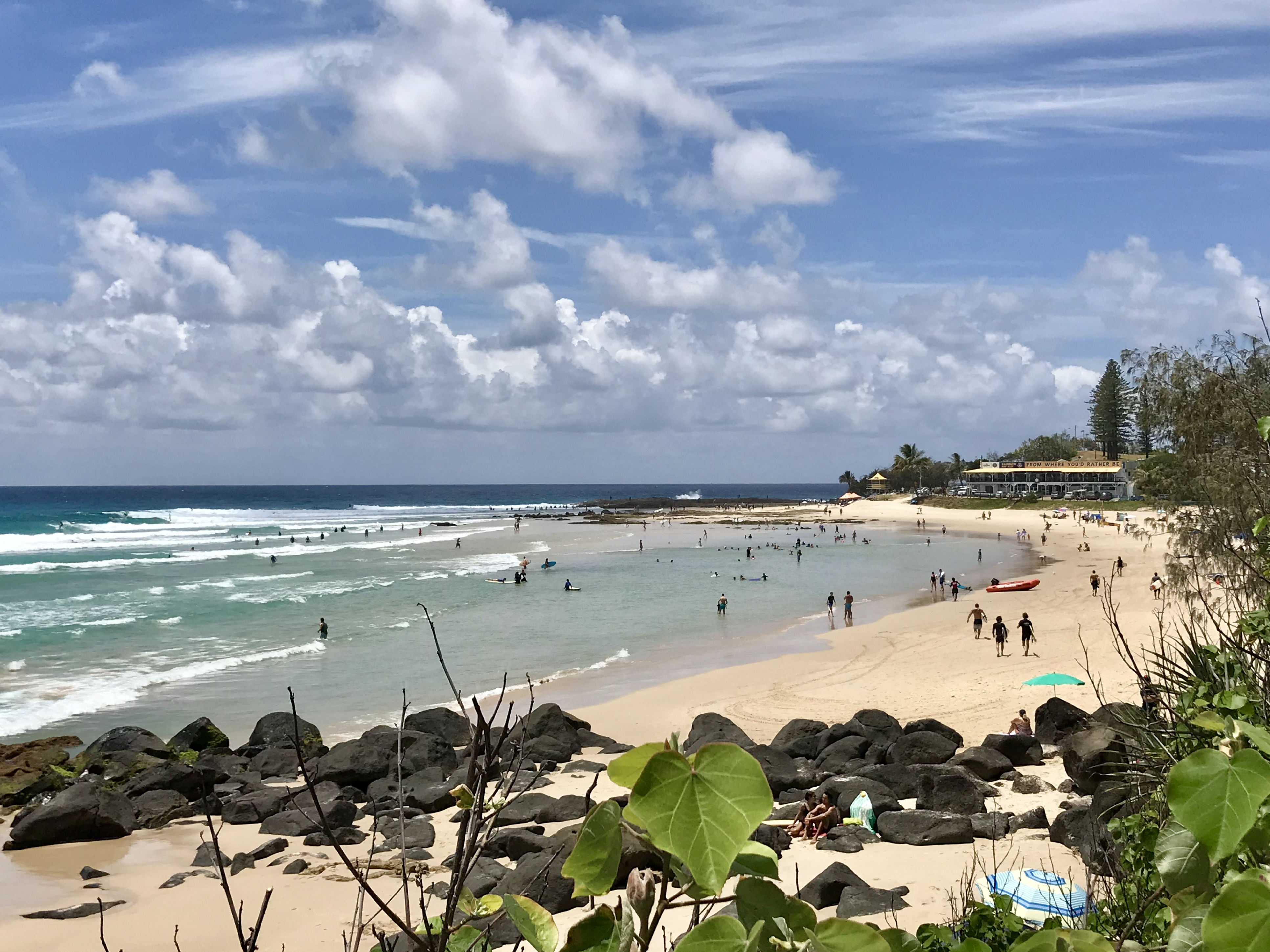 Rainbow Bay seen from Greenmount Hill, Coolangatta, Queensland